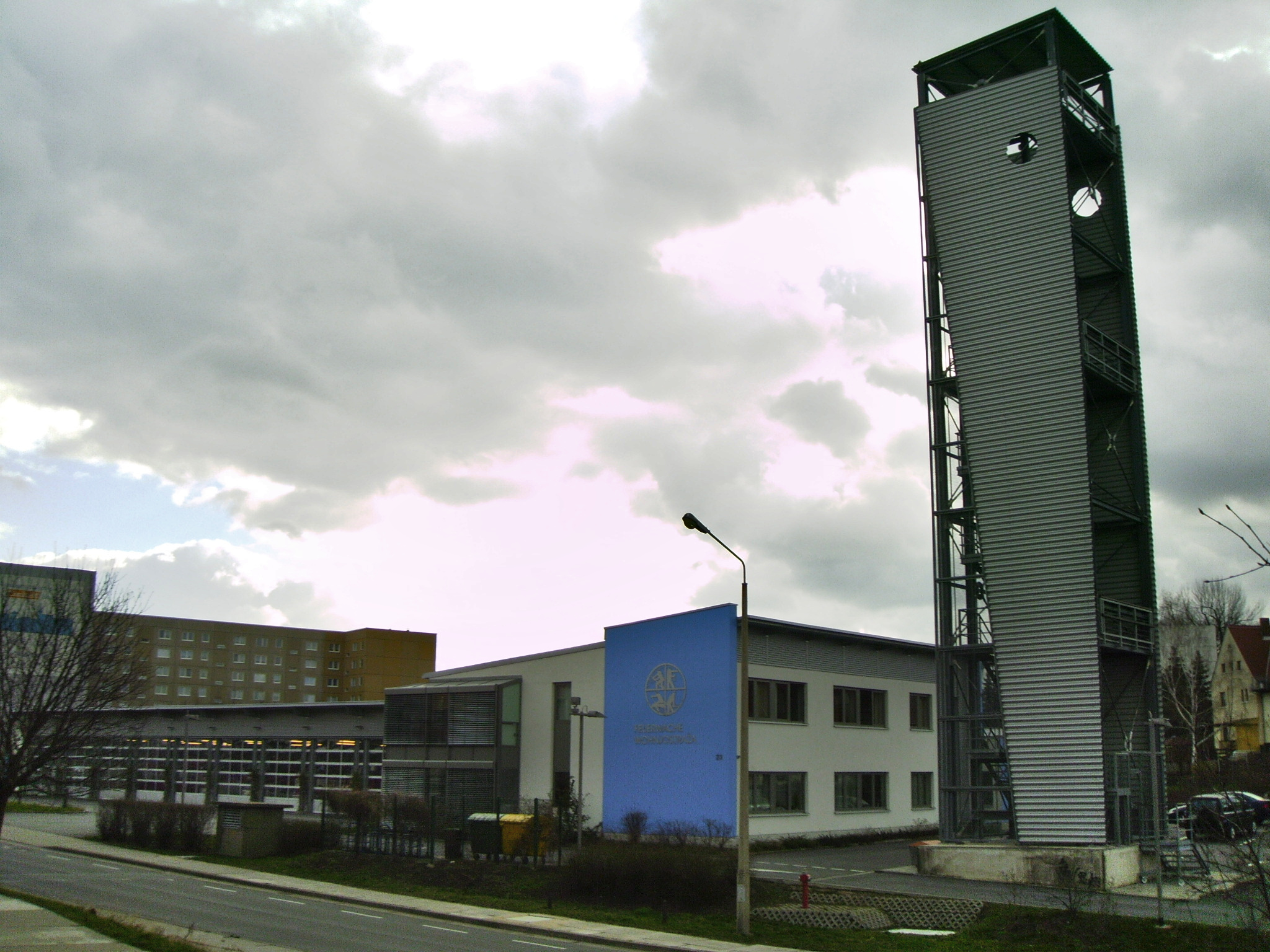 New built fire brigade in Bautzen (Germany) in the district Gesundbrunnen.